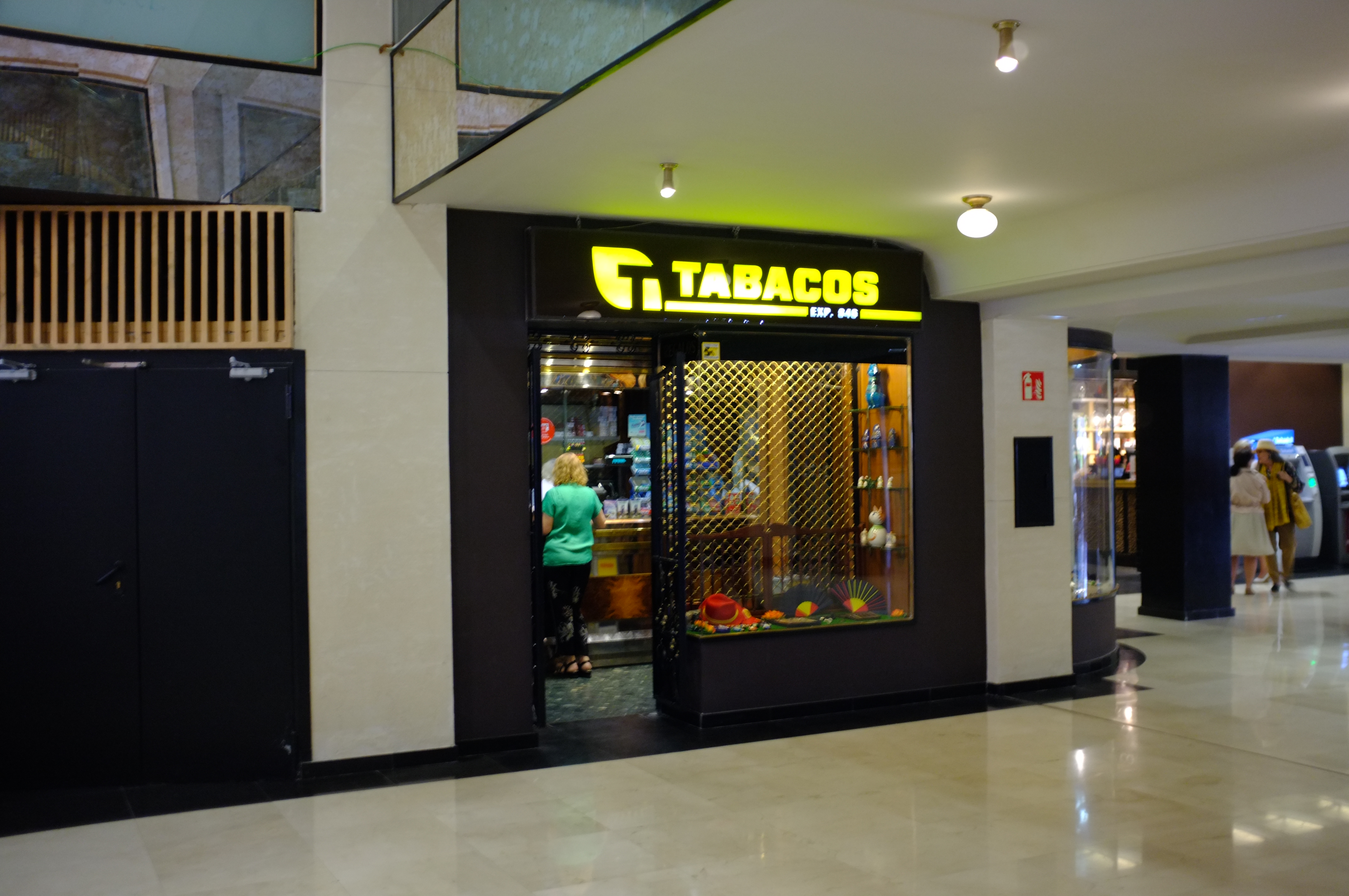 Estanco o expendeduría